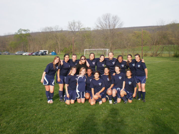 picture of Shenandoah Valley Academy Stars Soccer Team in April 2010 after they defeated the Tartans of Highland View Academy 7:0